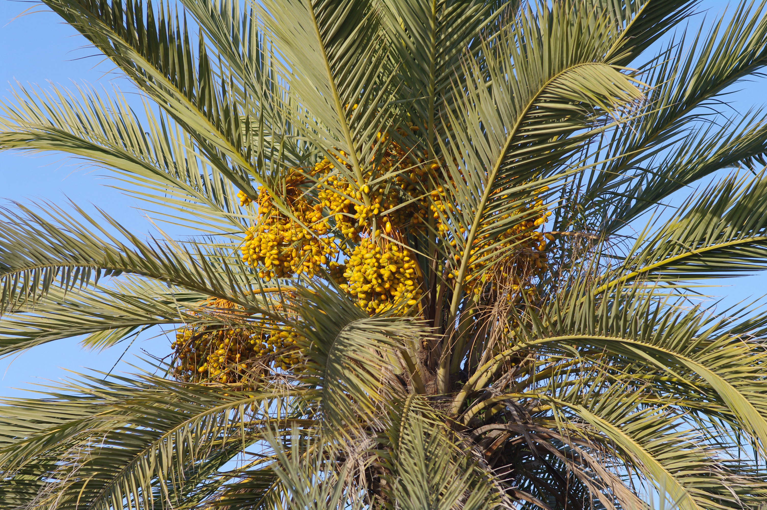 A date tree (Phoenix sp.) with fruits. Çukurova University Campus, Adana - Turkey.